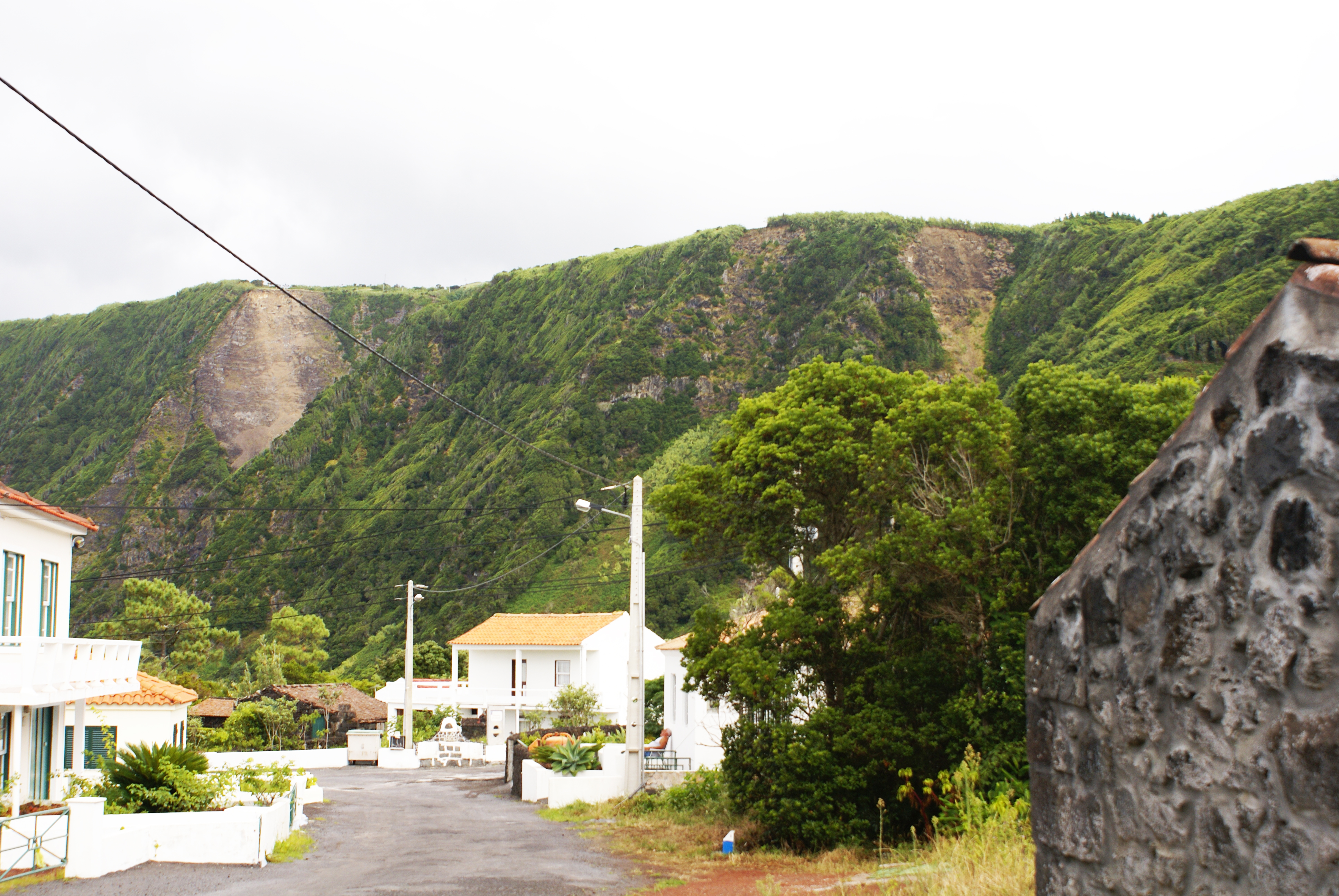 Fajã da Praia do Norte, Praia do Norte, Horta, Faial (Azores), Portugal